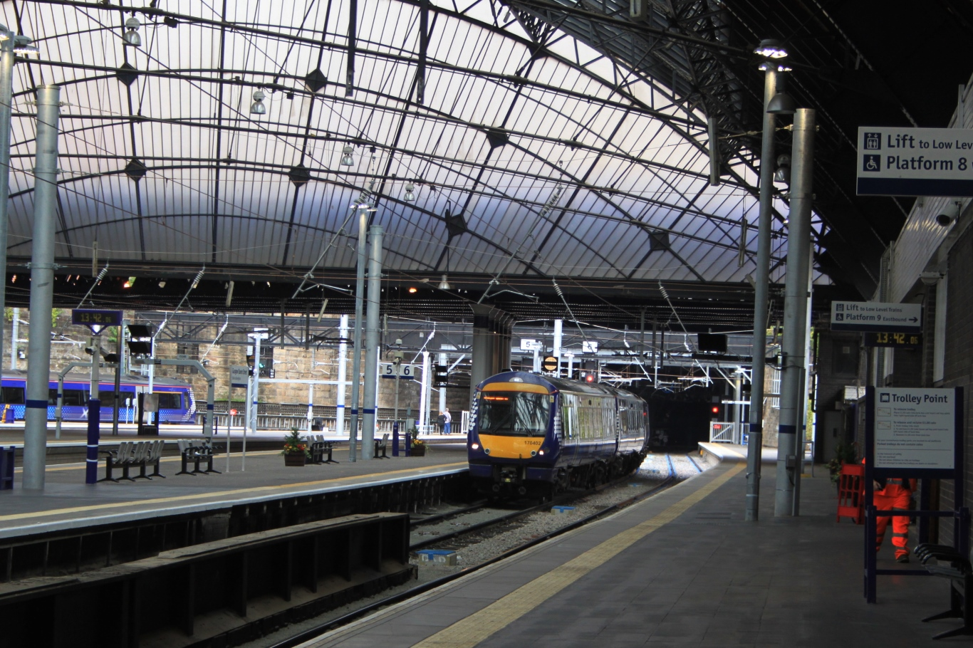 Abellio ScotRail's 170402 pulls up under the train shed at Queen Street station, the end of its journey from Alloa.